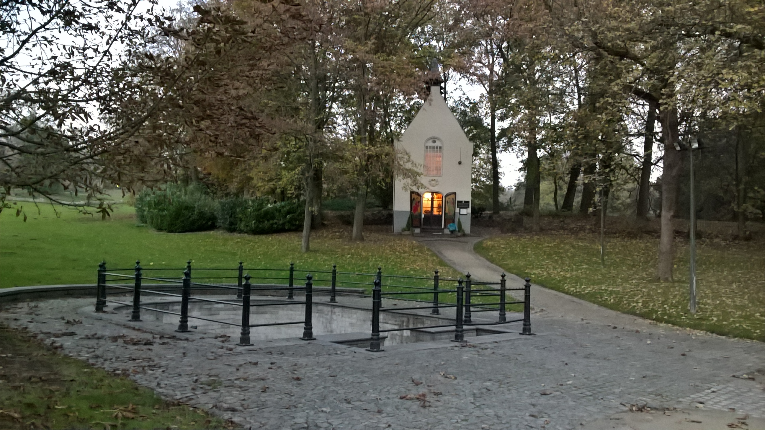 Source/fountain and chapel Saint Anne